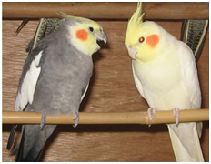 Picture taken from my own aviary with own camera by myself.